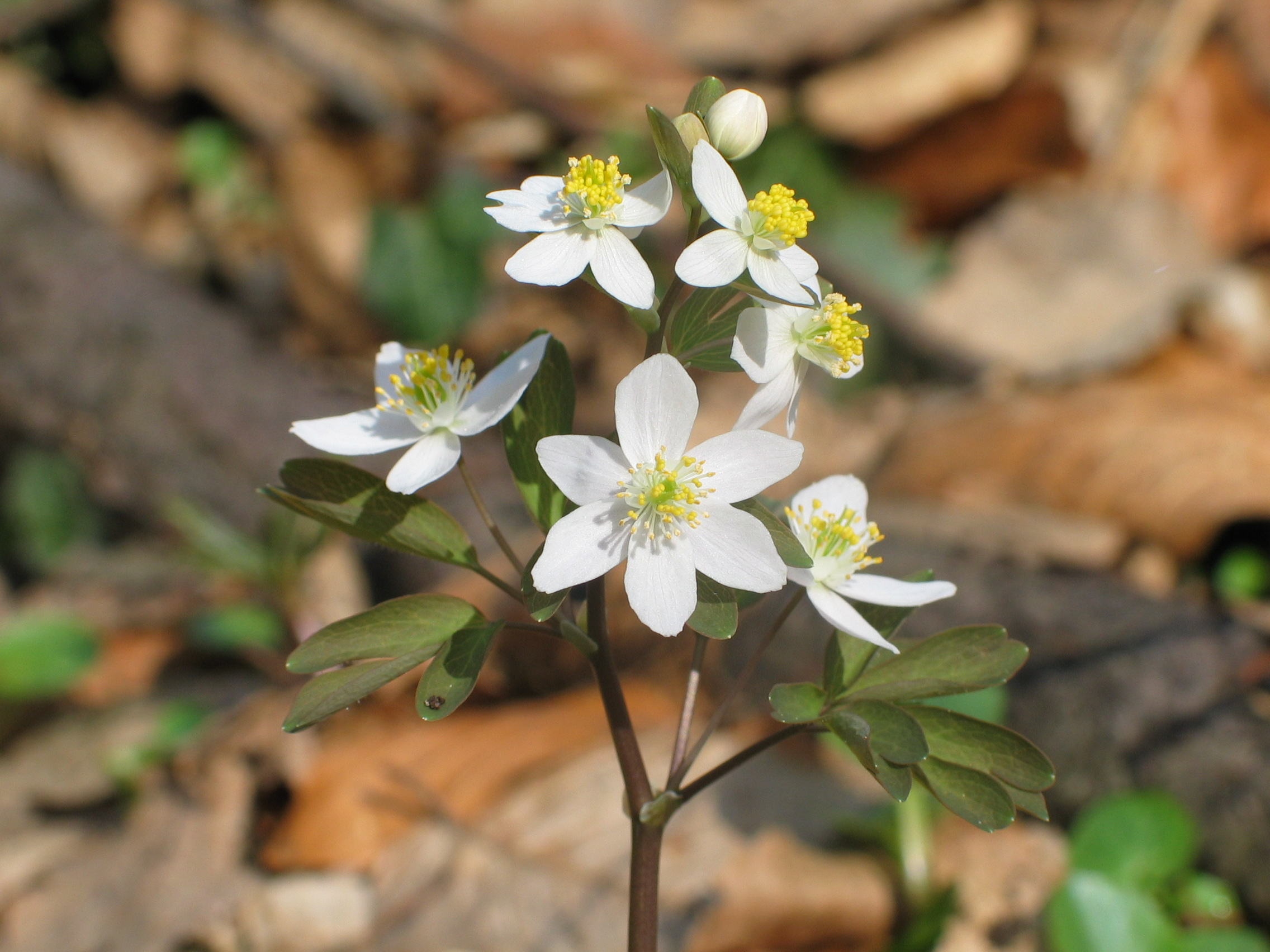 Isopyrum thalictroides. Tilaj, West Hungary, 2005-03-27. Note: The central flower has a plus petal (6 instead of 5).